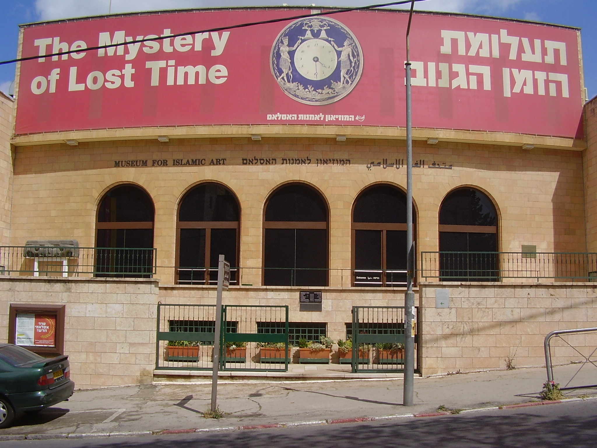 Islamic Art Museum in Jerusalem